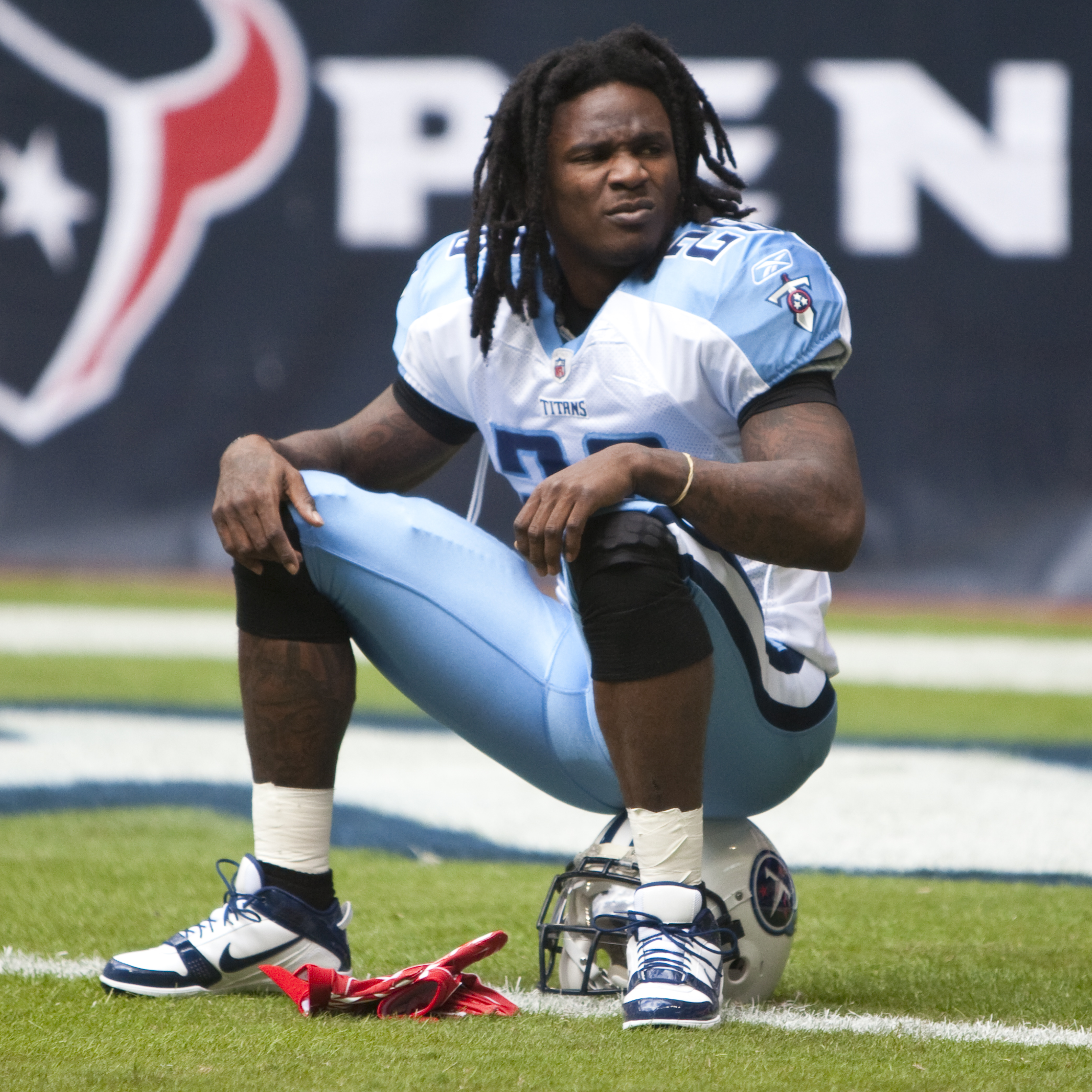 Houston Texans vs. Tennessee Titans